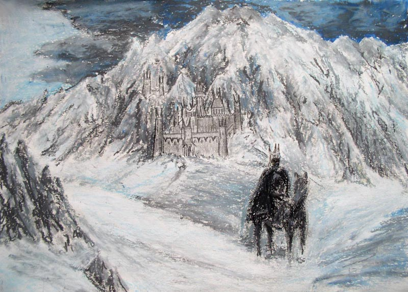 Carn Dûm